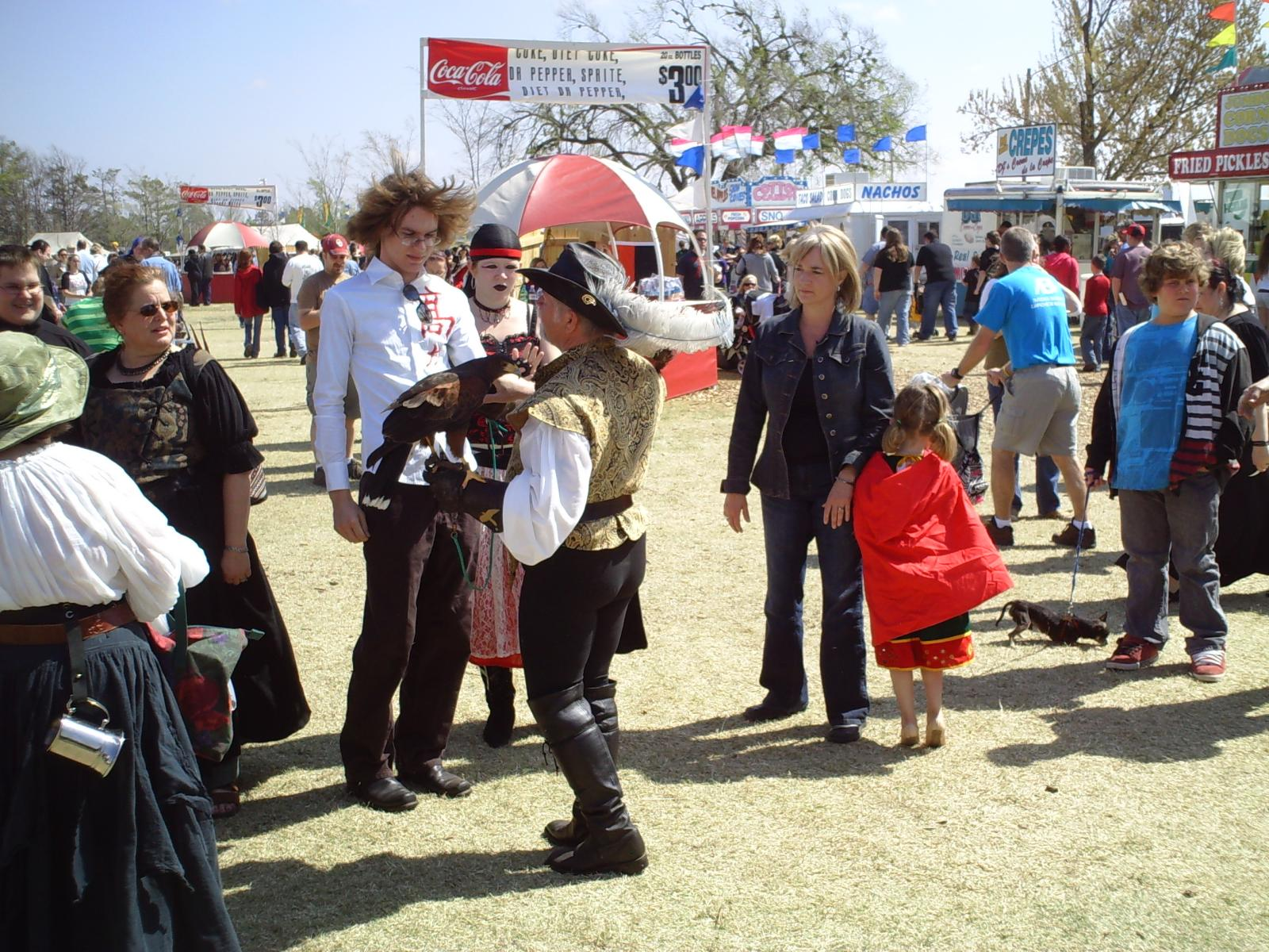 Medieval Fair in Norman, Oklahoma, United States.